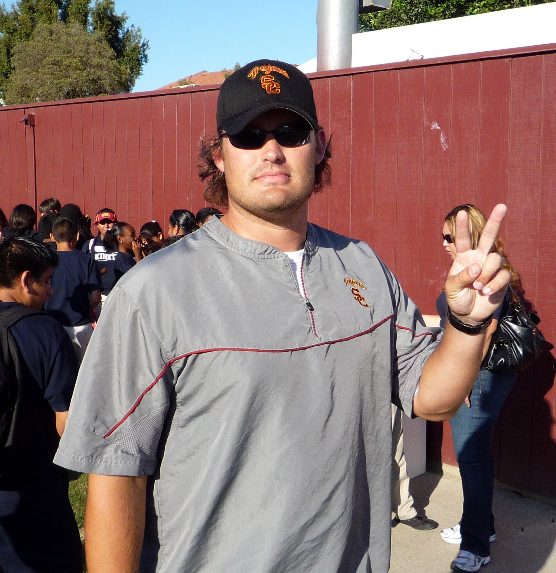 Assistant coach Brennan Carroll, after a fall practice preceding the 2008 USC Trojans football season. He is making the traditional USC Trojan "V" for victory hand sign.